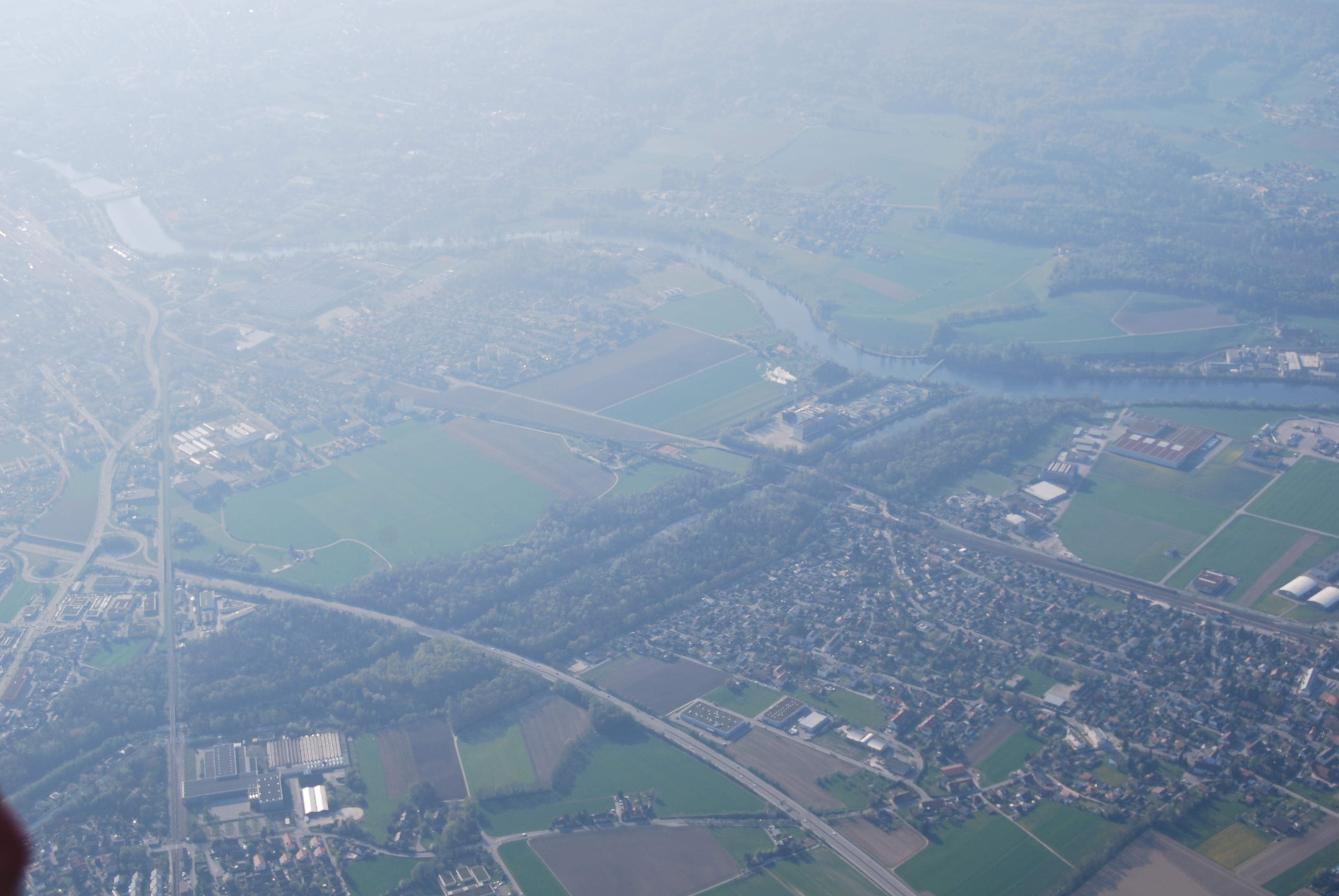 Mouth of Emme into Aar, Zuchwil and Luterbach, canton of Solothurn, Switzerland